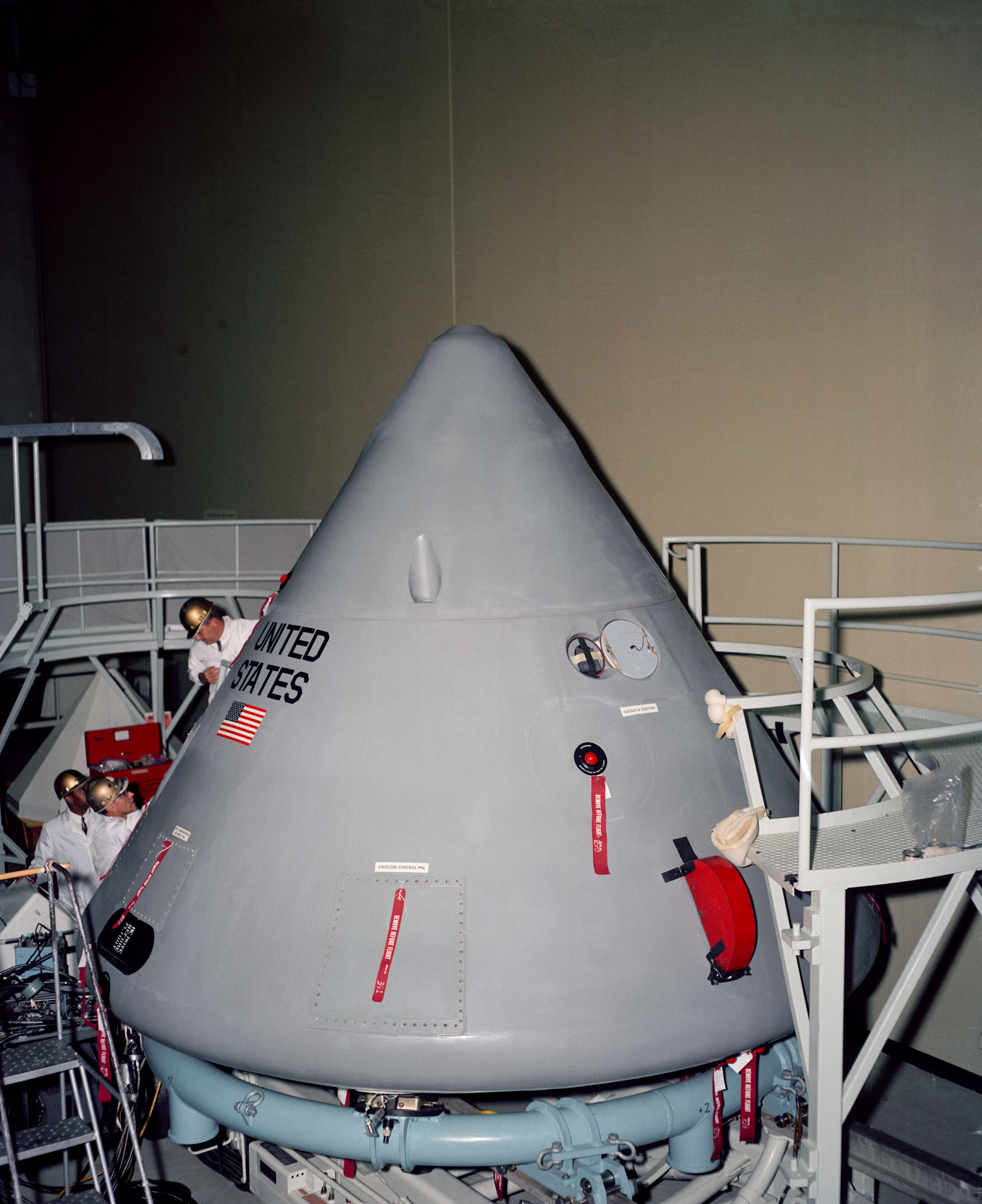 S66-53655 (1966) --- High angle view of Apollo Spacecraft 012 Command Module looking toward +Z axis during pre-shipping operations in south air lock of Systems Integration and Checkout Facility.